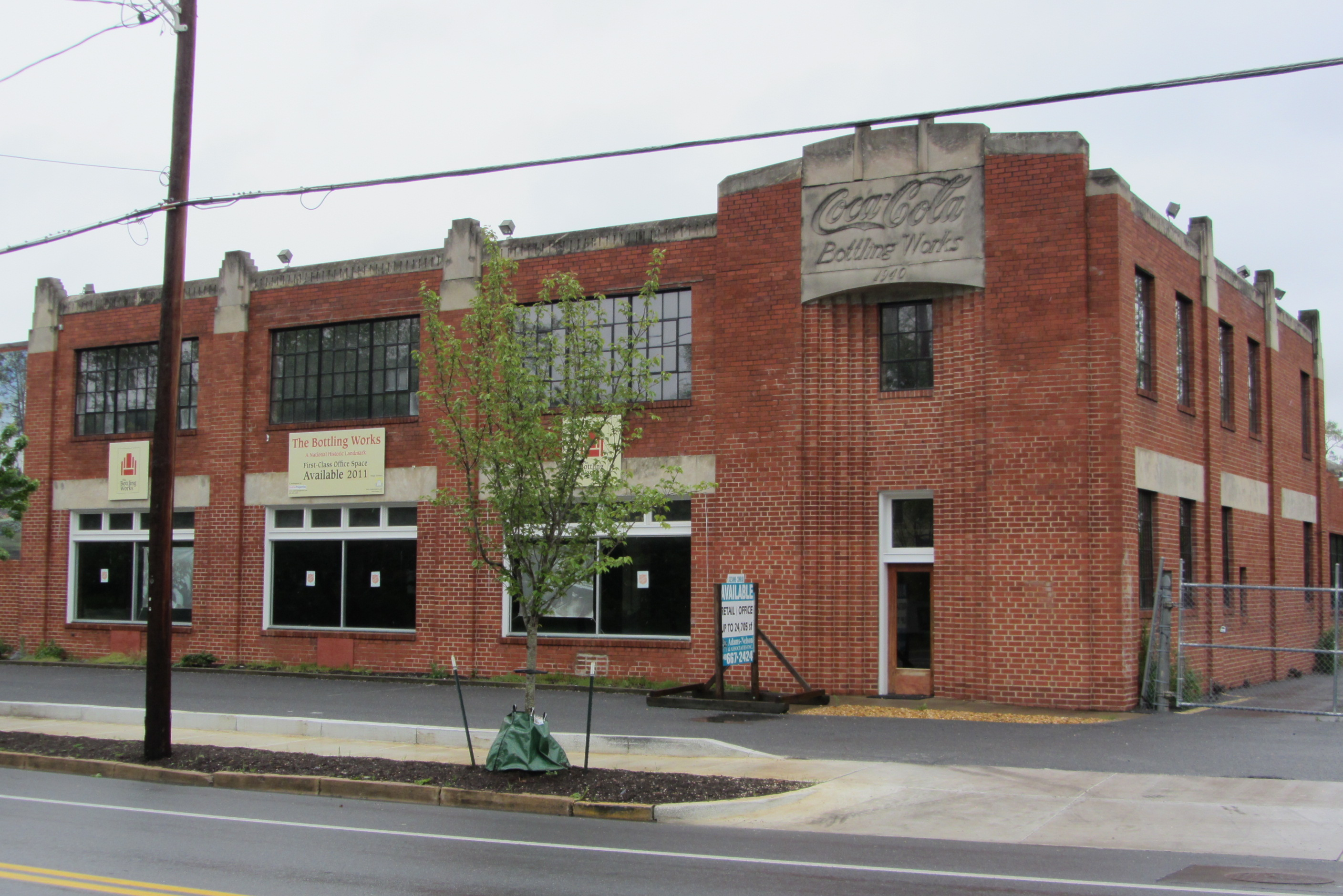 Winchester Coca-Cola Bottling Works building, 1720 Valley Ave., Winchester, Virginia, USA